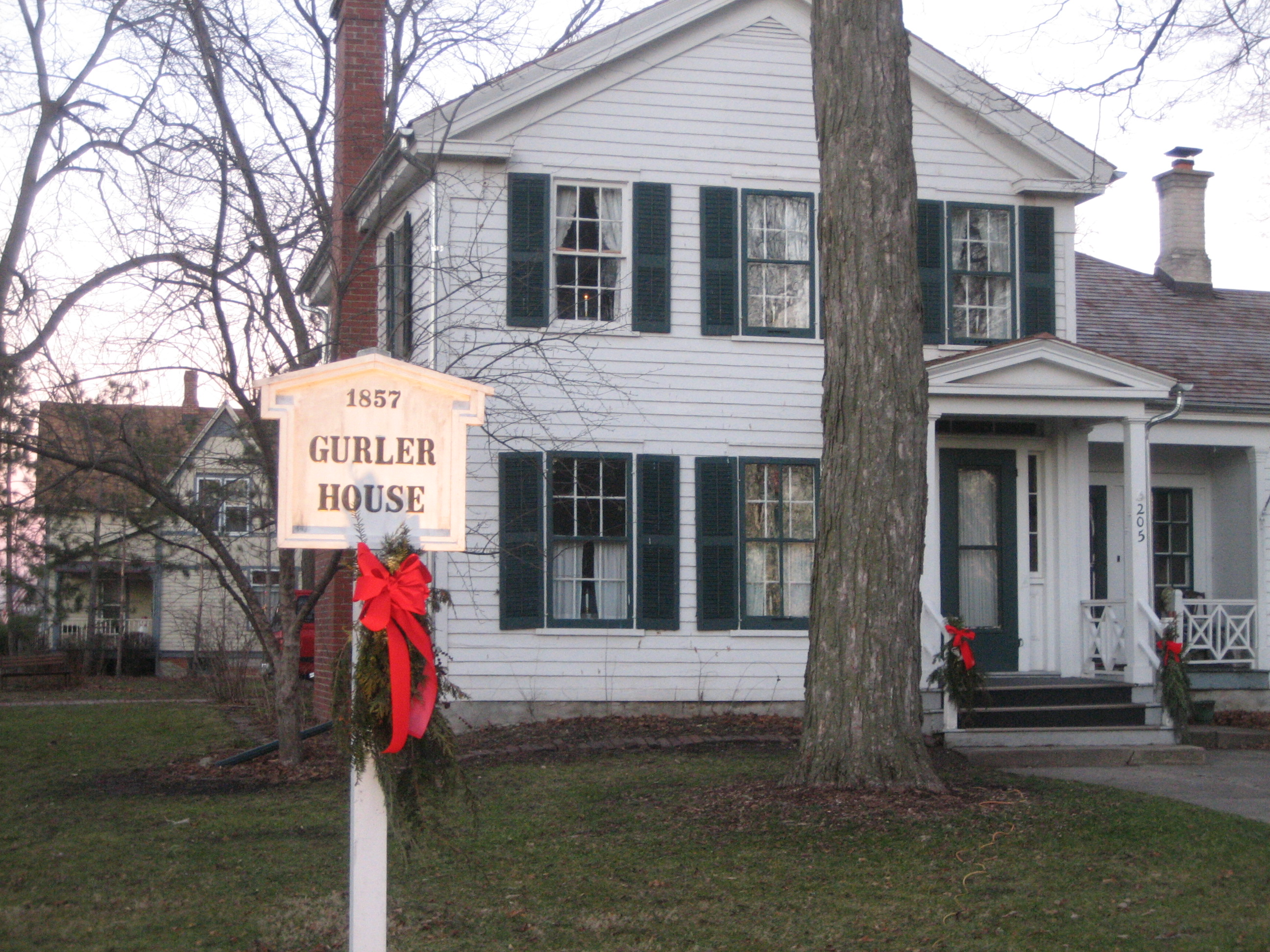 The Gurler House. An historic 1857 home in DeKalb, Illinois. Located on Pine Street and listed on the National Register of Historic Places.